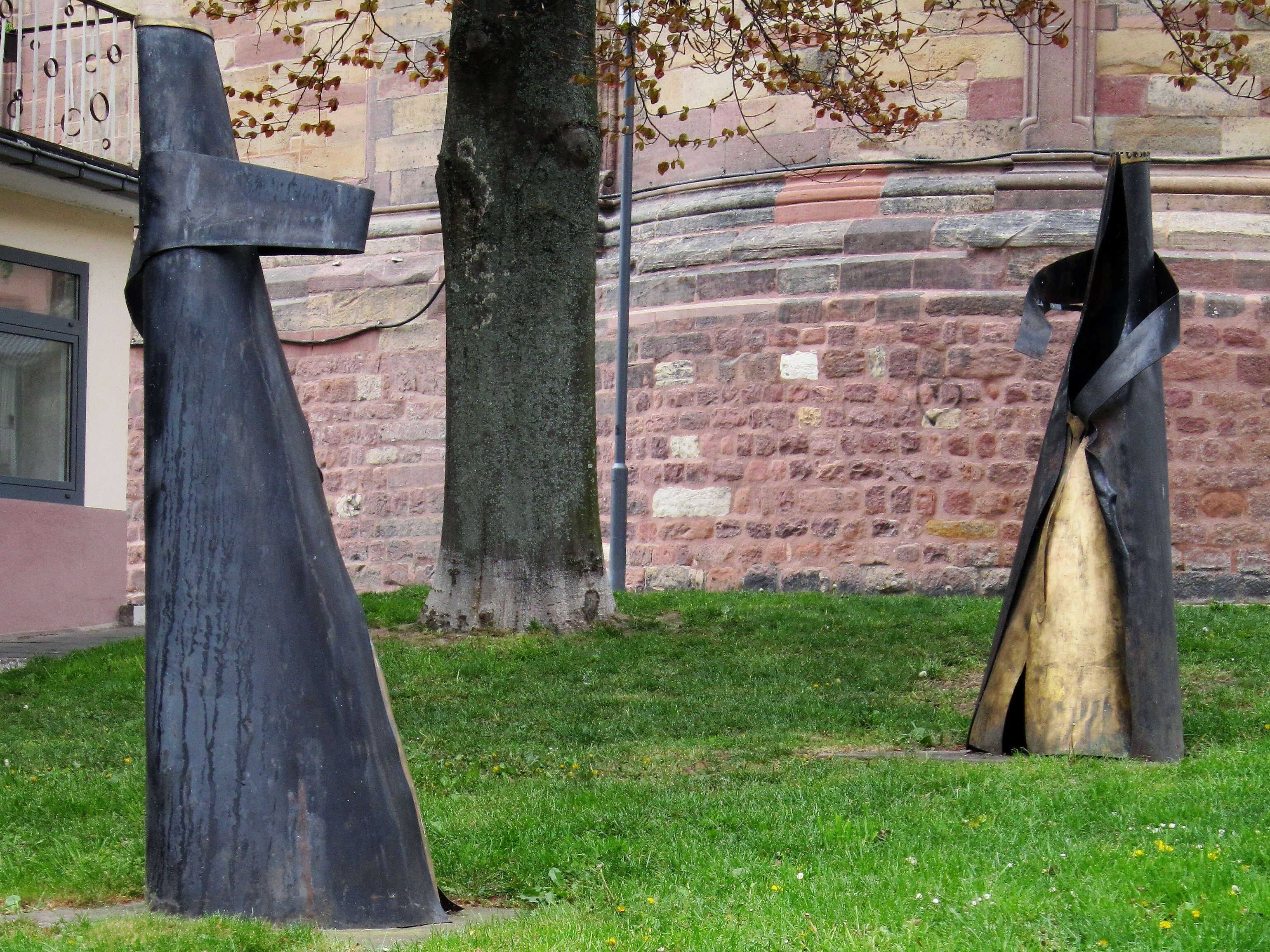 Sculpture "Quarrel of the Queens" behind St. Peter's Cathedral in Worms (according to the "Nibelungenlied"), produced in 2000 by Jens Nettlich